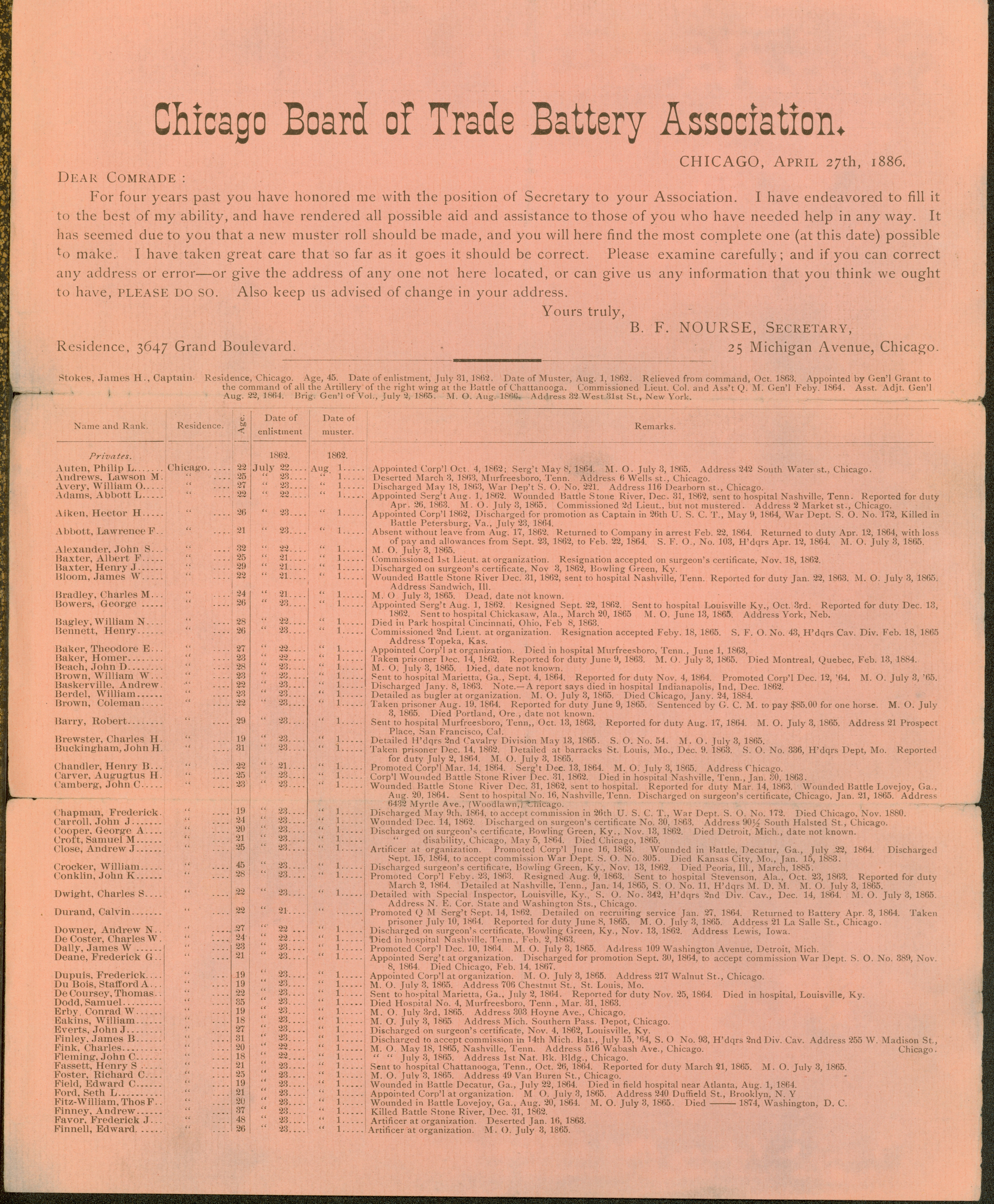 Includes name and rank, residence, age, date of enlistment, date of muster, and remarks.Title: Roster of the Chicago Board of Trade Battery Association, April 27, 1886